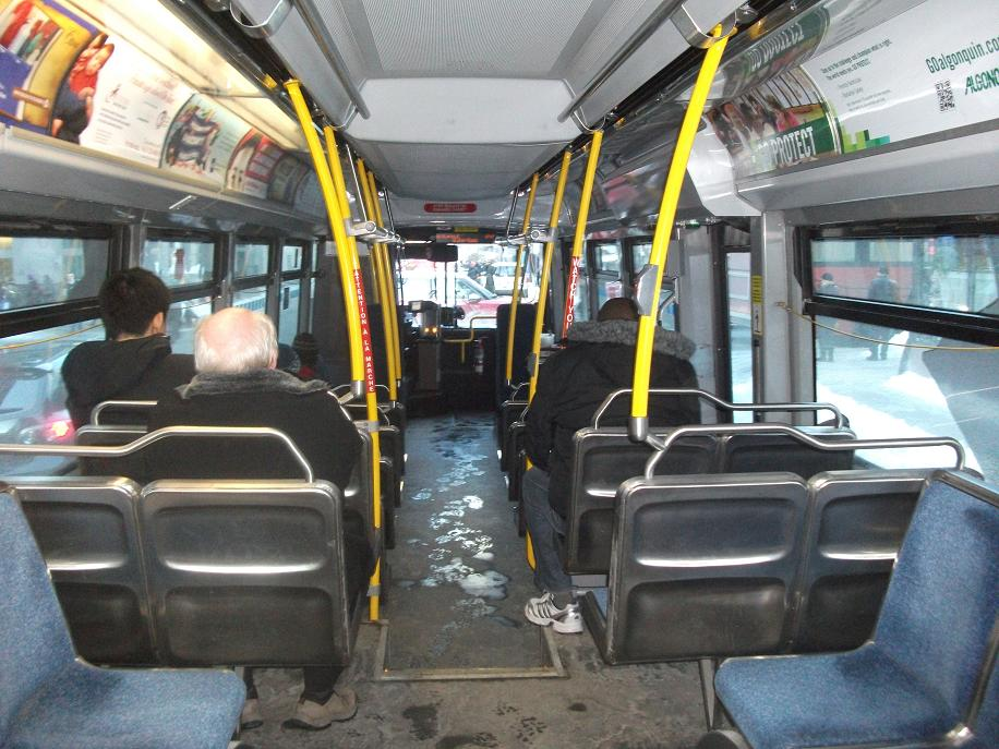 Summary: Inside an OC Transpo bus